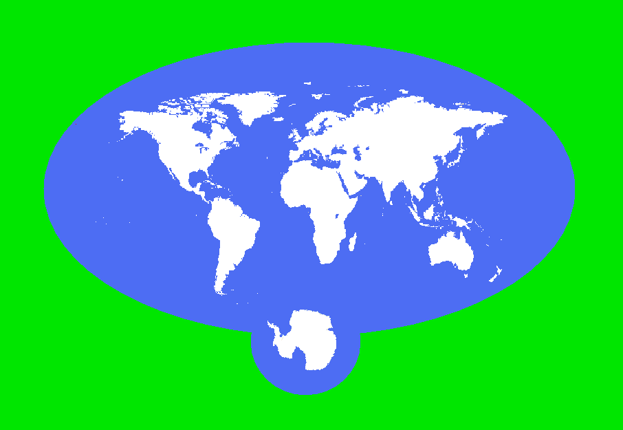 Earth Flag proposed by an unknown person